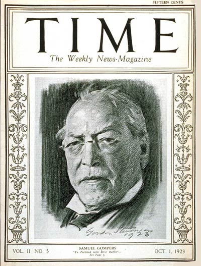 TIME Magazine Cover Featuring Samuel Gompers (1 Oct 1923)